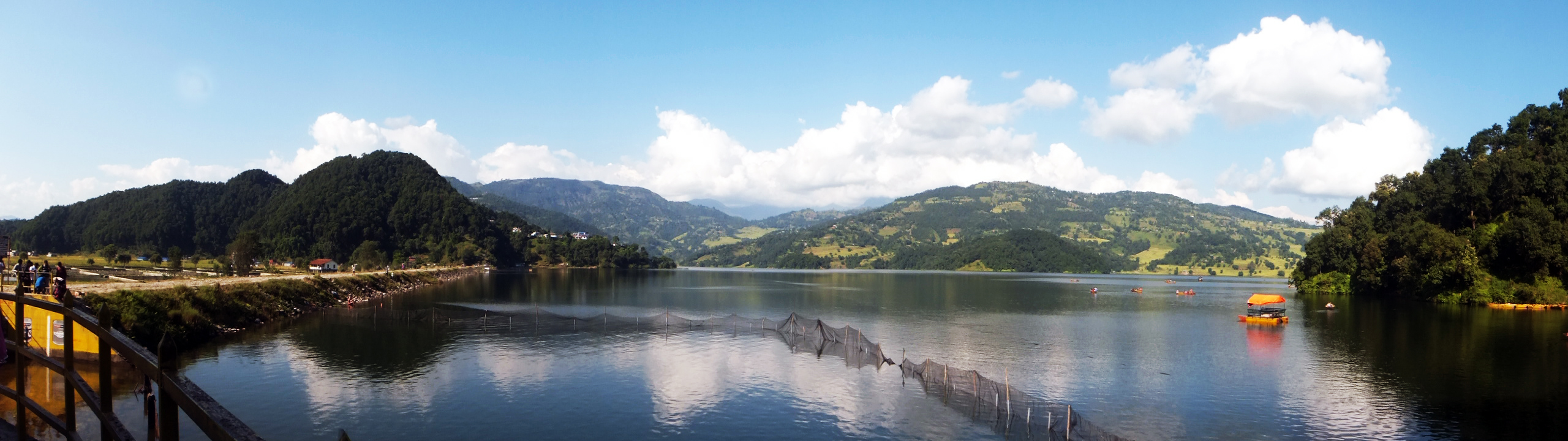 Begnas Lake is a freshwater lake in Lekhnath municipality of Kaski district of Nepal located in the south-east of the Pokhara Valley. The lake is the second largest, after Phewa lake, among the eight lakes in Pokhara Valley. Water level in the lake fluctuates seasonally due to rain, and utilization for irrigation. The water level is regulated through a dam constructed in 1988 on the western outlet stream, Khudi Khola.